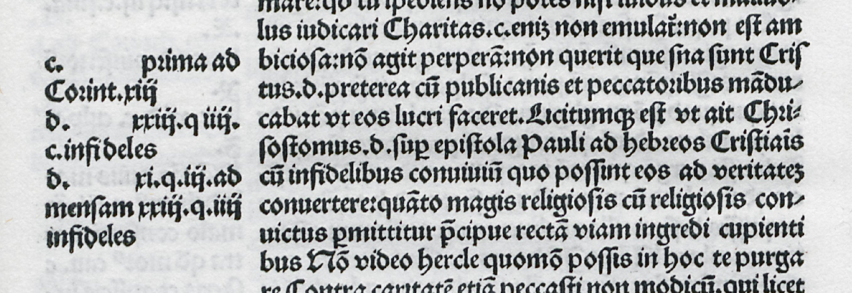 Contra fratrem Hieronymum Savonarolam haeresiarcham. Leipzig: Jakob Thanner, 1498 [Ed. vet.1498,2]